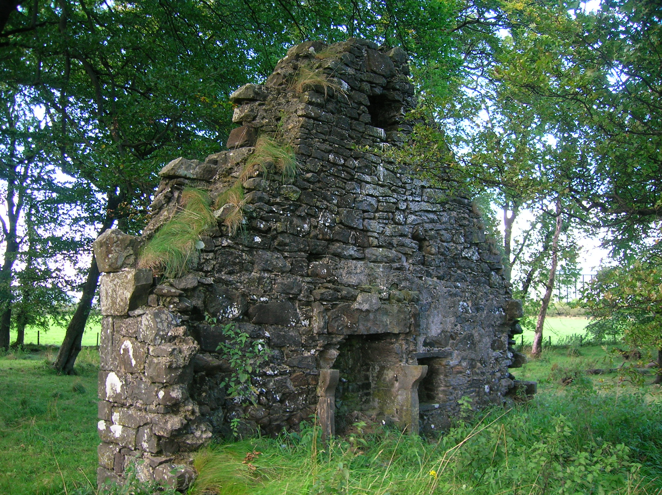 Then gable end of the old Mossend Farm, Hessilhead, Ayrshire, Scotland.